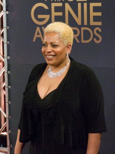 Kim Richardson